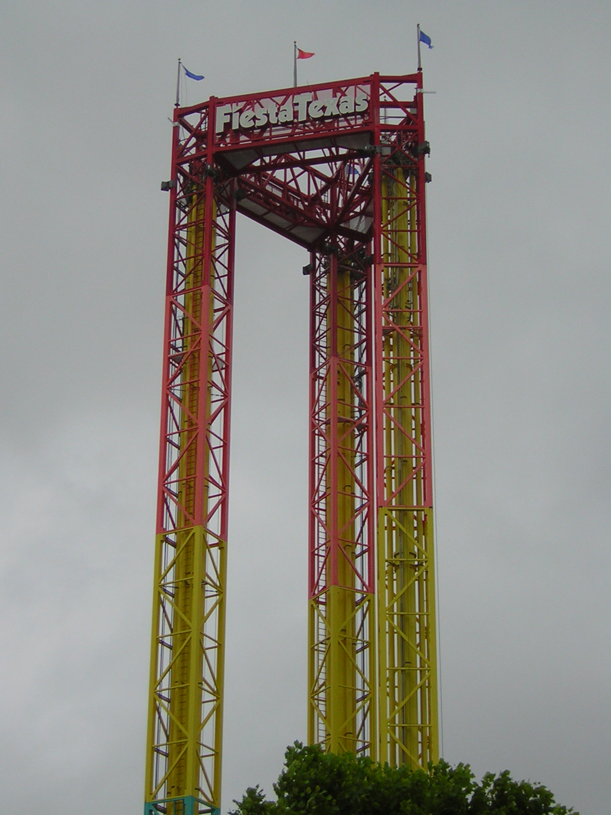 Scream